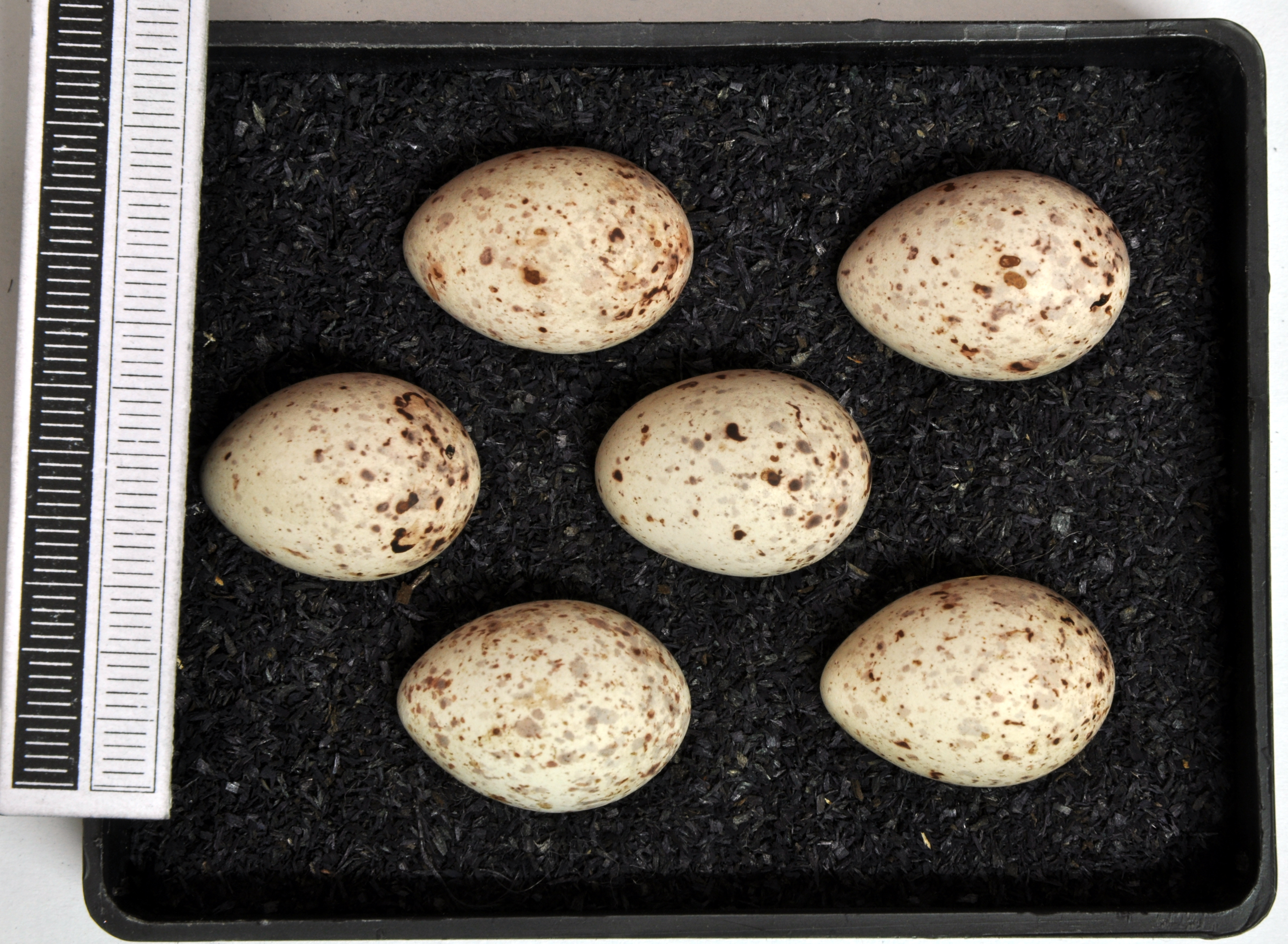 Snow bunting Plectrophenax nivalis, egg, Coll. Museum Wiesbaden, Origin: Spitsbergen, Norway, 21.06.1970, leg. W. Abelmann